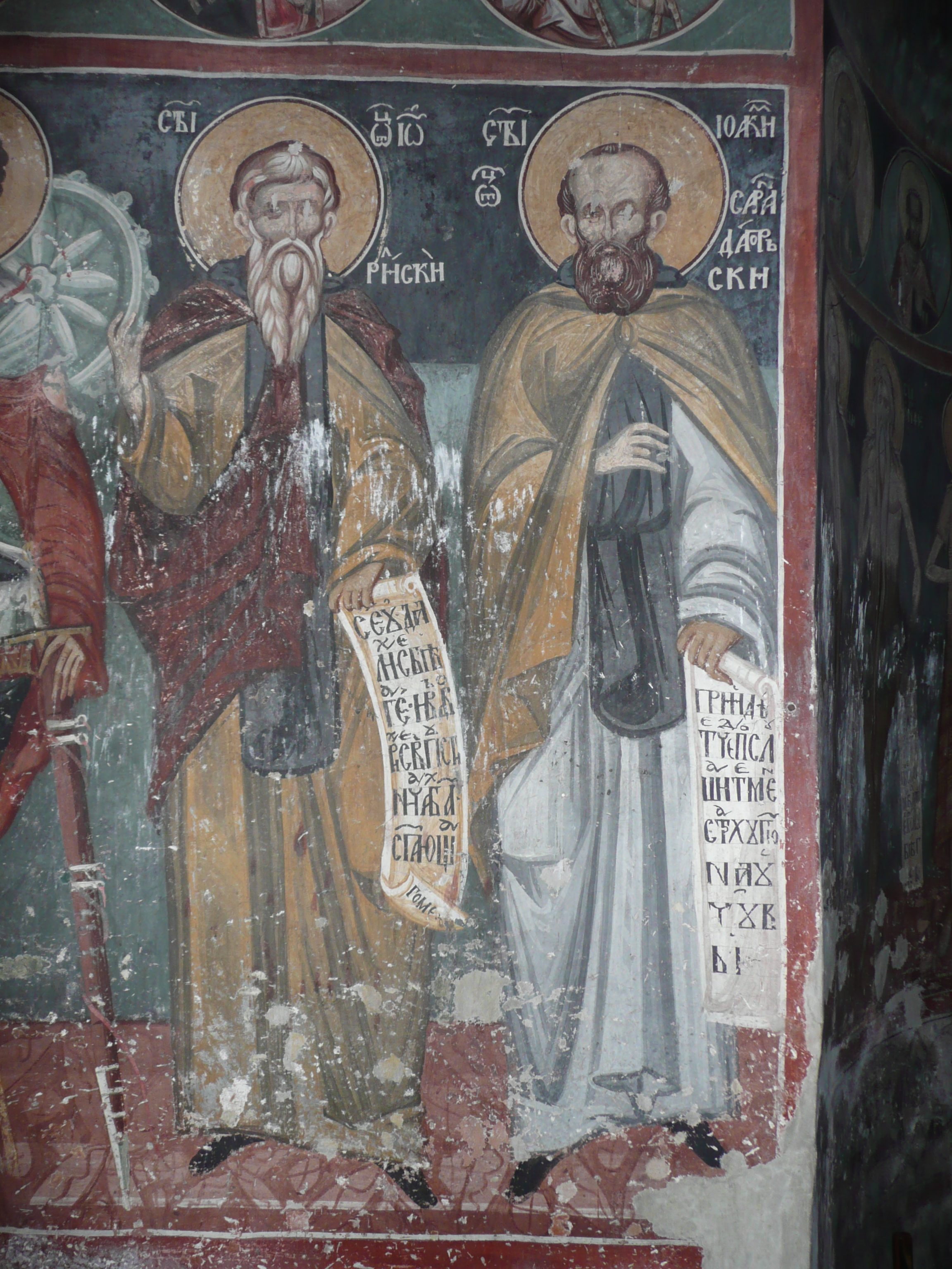 St John of Rila and St Joachim of Osogovo (Sarandapor) - a fresco from Poganovo monastery (end of 15th century)